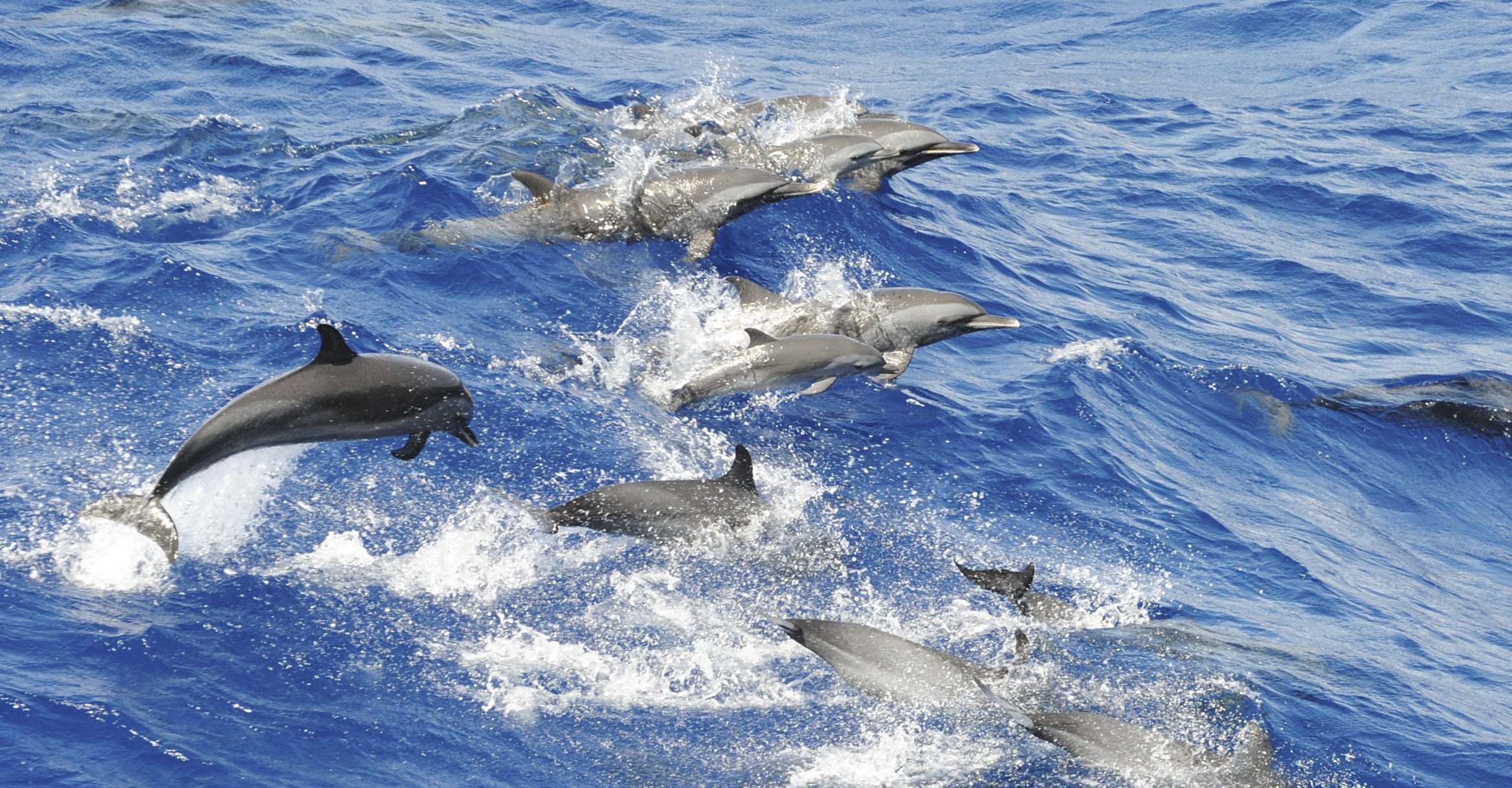 Colombian waters